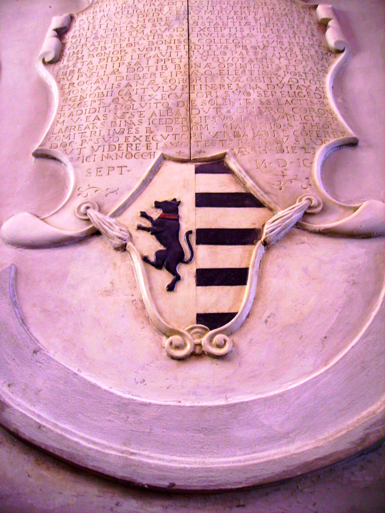 The coat of arms of Bartoli family